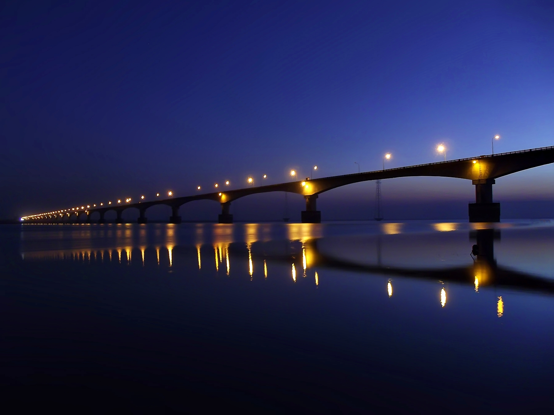 Kolia Bhomora Setu is a concrete road bridge over the Brahmaputra River near Tezpur, Assam (India). It is named after the Ahom General Kalia Bhomora Phukan. This bridge connects Sonitpur district on the north bank with Nagaon district on the south bank.